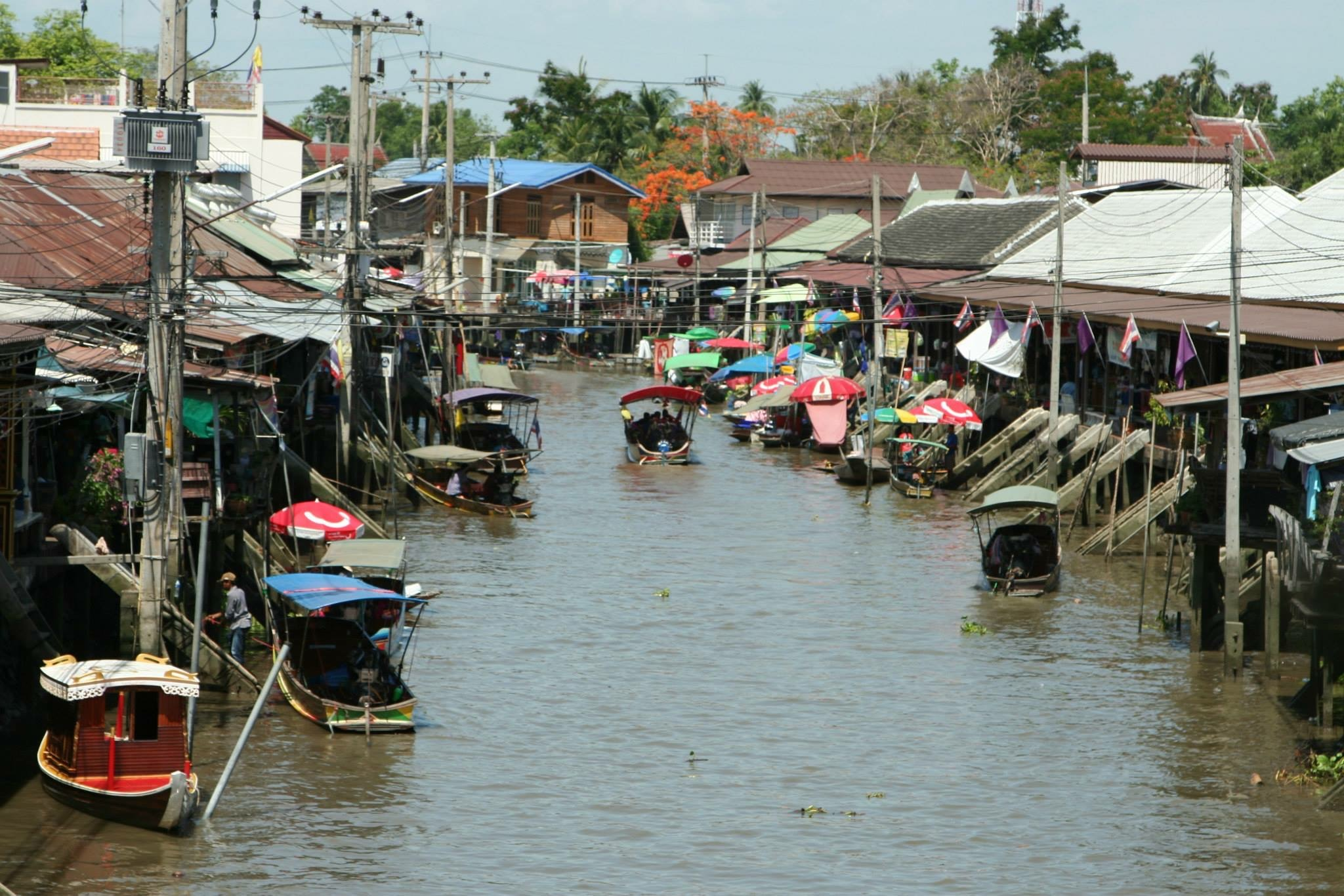 day